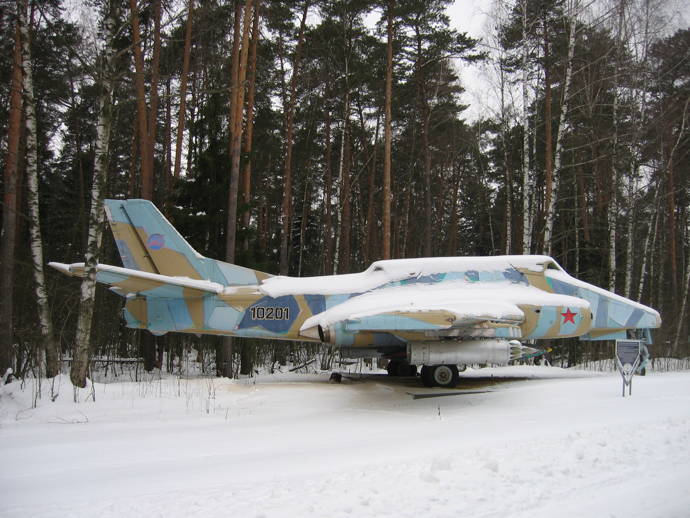 Photo taken in 2008